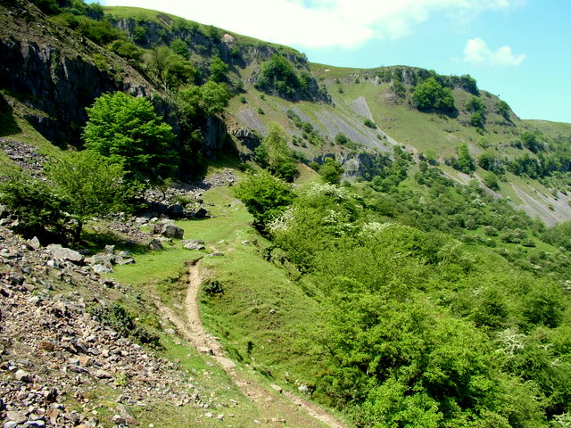 Llangattock Escarpment looking northwest towards Craig y Cilau